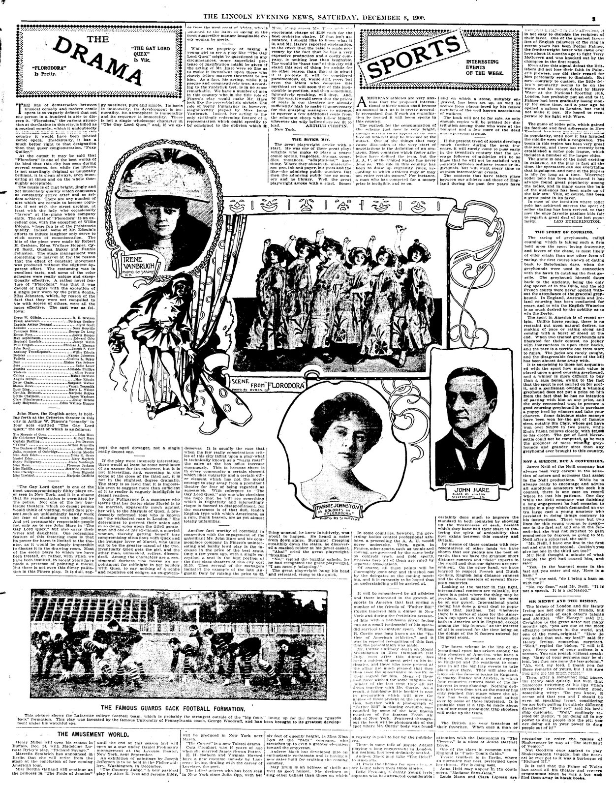 Page from the "Lincoln Evening News" for Saturday, 8 December, 1900, including illustrations of hit theatrical production "Florodora"